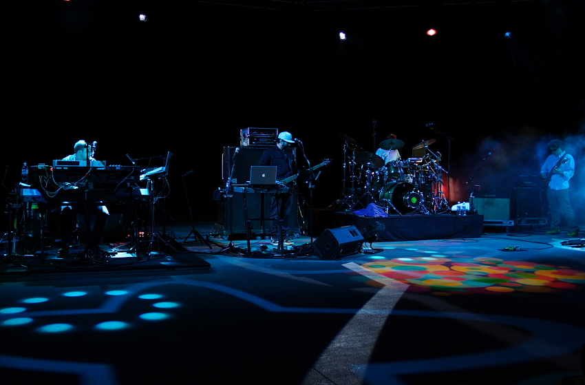 The Disco Biscuits Concert at Red Rocks Amphitheatre 5-30-2010 Photo by Mike Hardaker